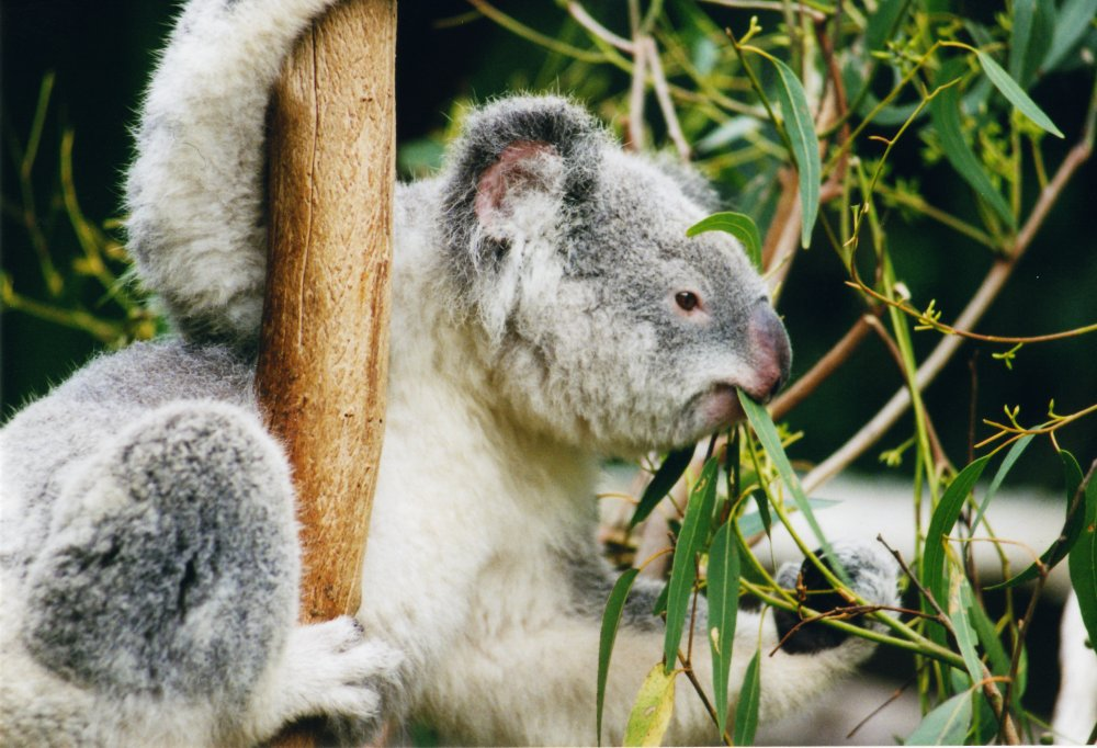 Koala. Photo taken in Australia in March 1995.